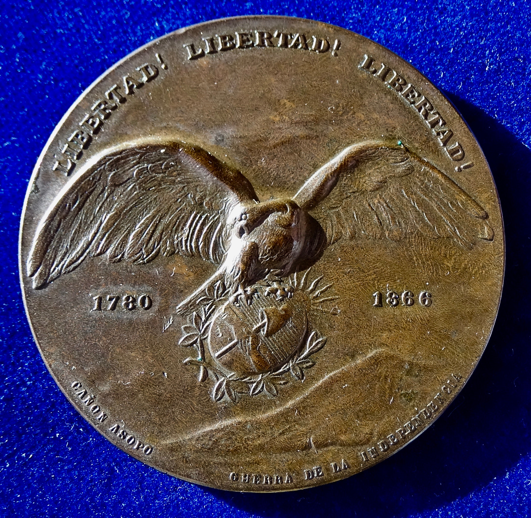 Argentine Art Nouveau Medal 1906 by Victor de Pol, Repatriation of the National Hero Las Heras. Bronze medallion, d. = 57 mm. Las Heras, Juan Gualberto Gregorio de, Grand Marshall, 1780 Buenos Aires - 1866 Santiago de Chile. "1780" and "1866" divided by flying Condor holding the Argentine coat of arms. Around: "LIBERTAD! LIBERTAD! LIBERTAD! CAÑON ASOPO GUERRA DE LA INDEPENDENCIA"/ 10 lines under radiant sun: "GENERAL JUAN GREGORIO DE LAS HERAS EL GOBIERNO DE LA NACION ARGENTINA EN LA REPATRIACION DE SUS RESTOS OCTUBRE 20 DE 1906". Medallist: V. (Victor de) Pol, sculptor of important Argentine monuments, 1865 Venice, Italy - 1925 Buenos Aires. Condition : EXTREMELY FINE+.